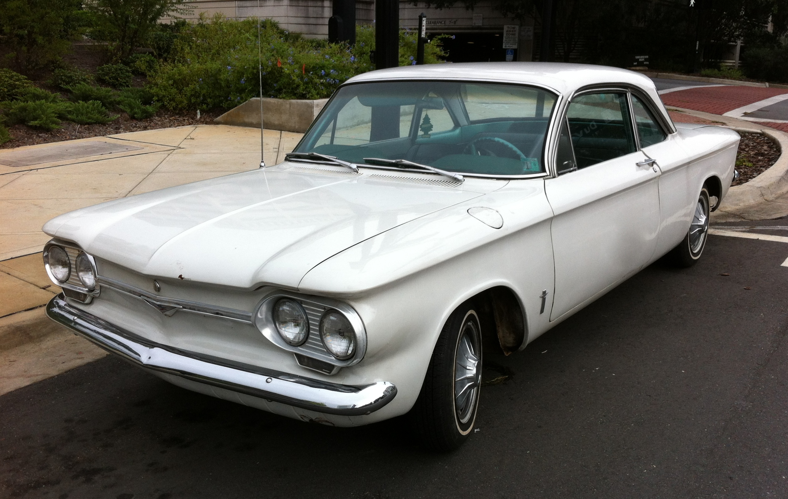 Chevrolet Corvair - 1st generation (Y-body) coupe finished in white